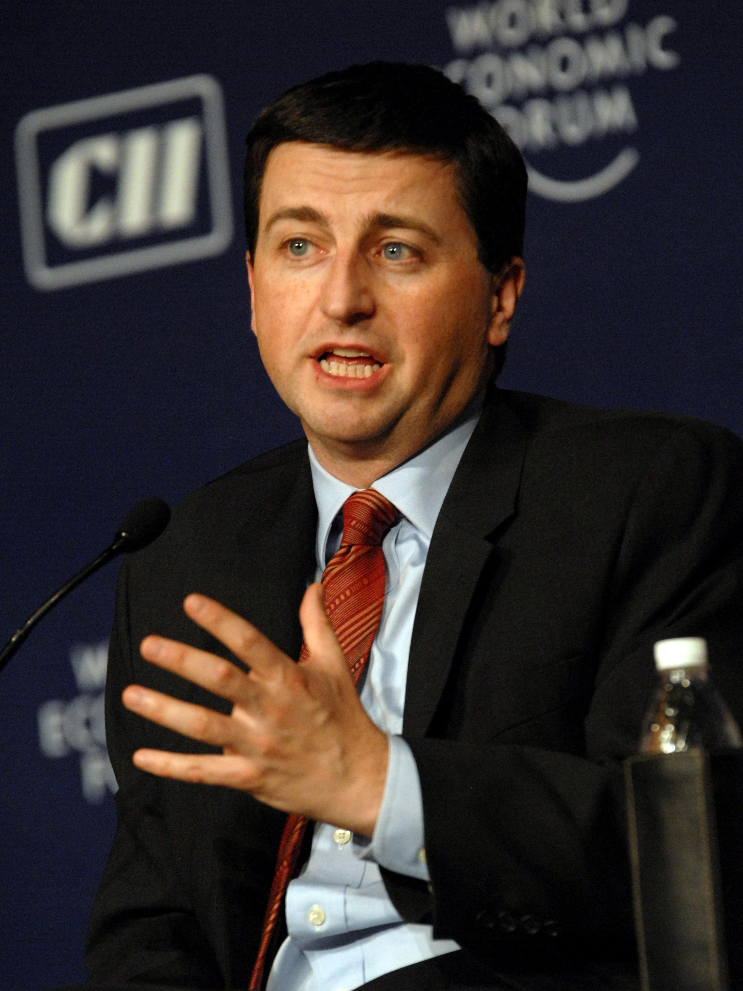 Douglas Alexander, British politician and Secretary of State for International Development, participates in a panel discussion on globalization of healthcare and life sciences held at the World Economic Forum's India Economic Summit 2008 in New Delhi, India.